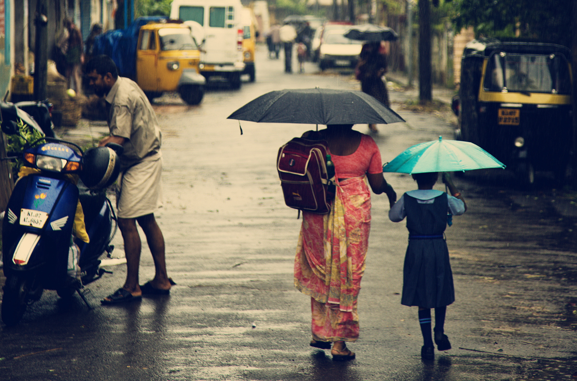 Going to school. A day in the life of India.